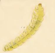 Stainton’s Natural History of the Tineina (1855–1873): Phyllonorycter trifasciella